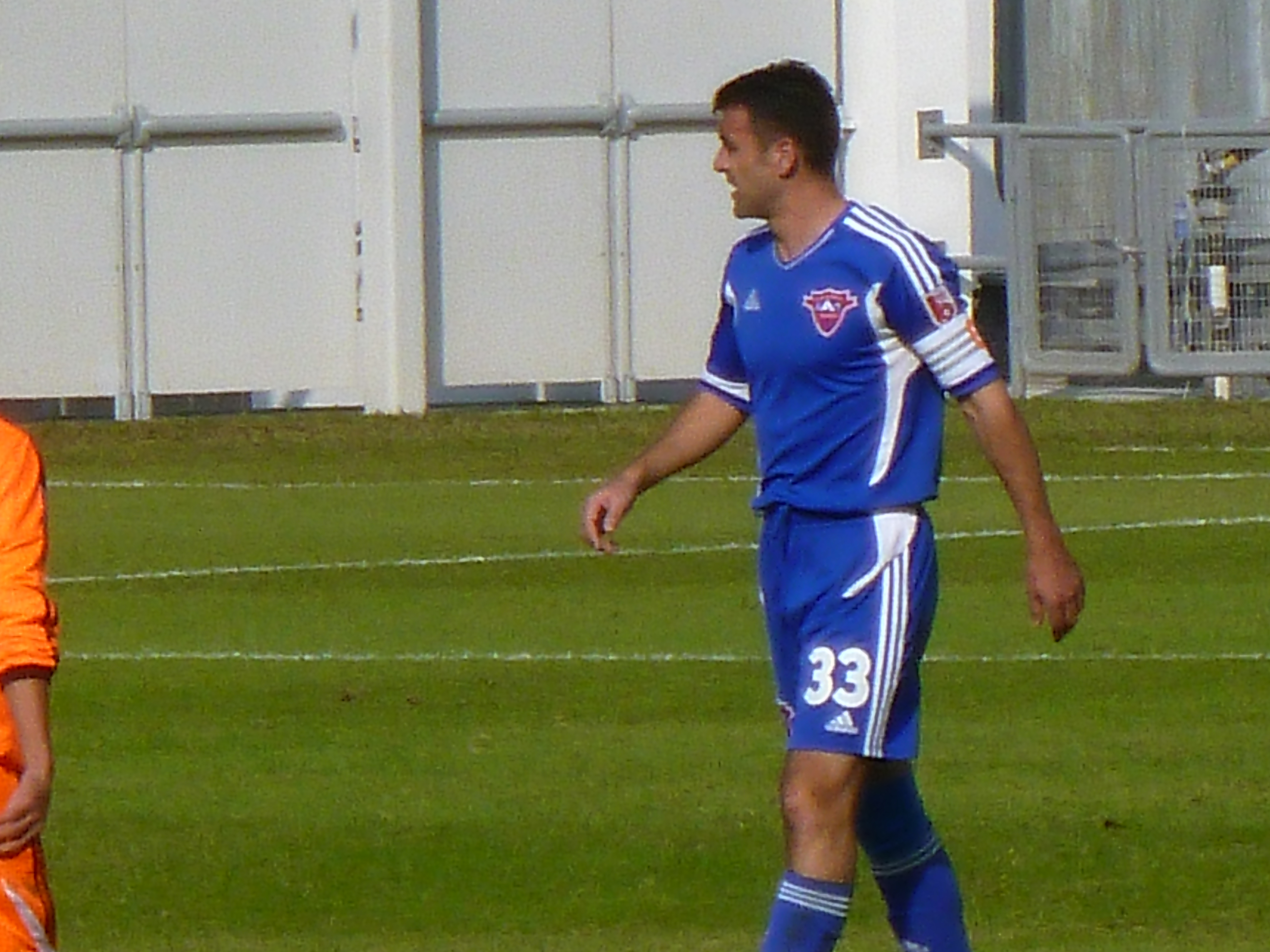 Čedomir Mijanović (24 Dec 2011 Hong Kong Senior Challenge Shield semi-final 2nd round Sun Hei vs Tuen Mun at Mong Kok Stadium)